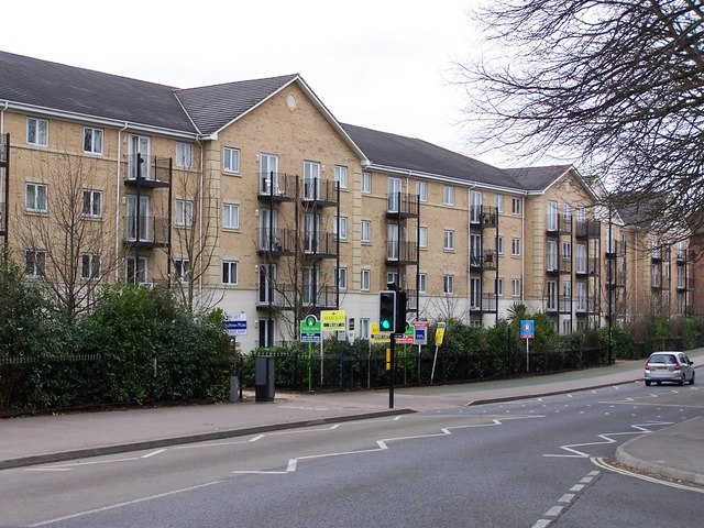 Flats on site of "The Dell" football stadium When Southampton City Football Club moved to the new St Mary's Stadium in 2001, the old Dell site was redeveloped with these flats